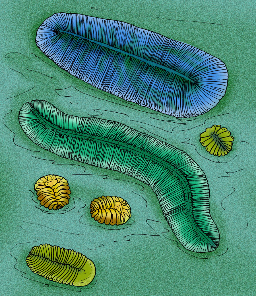 Reconstructions of various proarticulatans from what is now the coast of the White Sea in Russia. From top is Dickinsonia rex, D. (Vendomia) menneri, D. lissa, and two specimens of Archaeaspinus